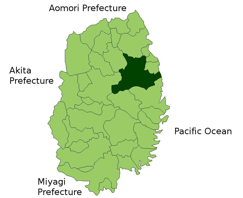 Location Map of Iwaizumi in Iwate Prefecture, Japan